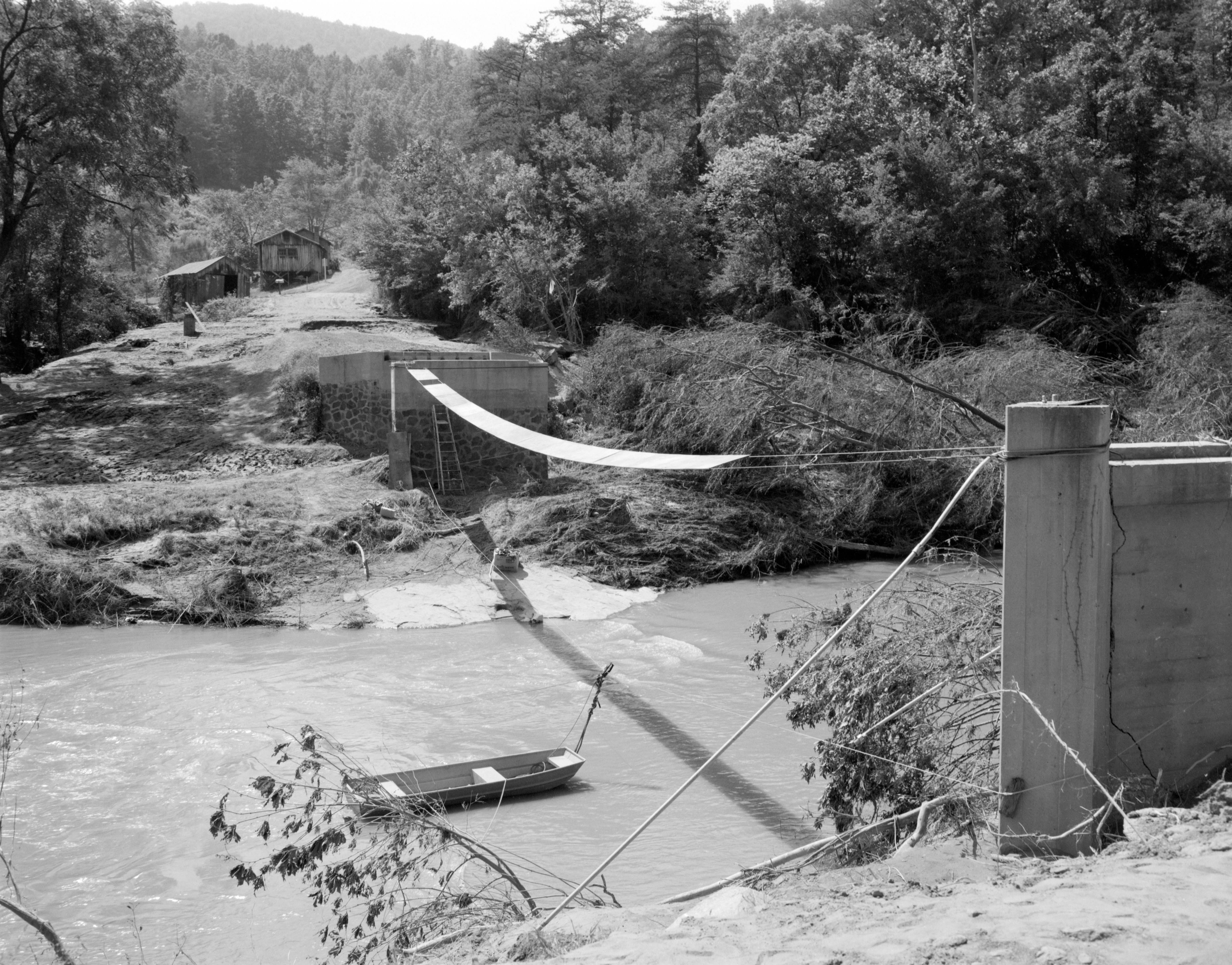 The Rt. 714 bridge was washed out by Hurricane Camille, leaving those on the other side to use other means of crossing, such as boat. Located at the intersection with Rt. 617, one mile west of Rockfish in Nelson County. No. 69-2339, Virginia Governor's Negative Collection, Library of Virginia.